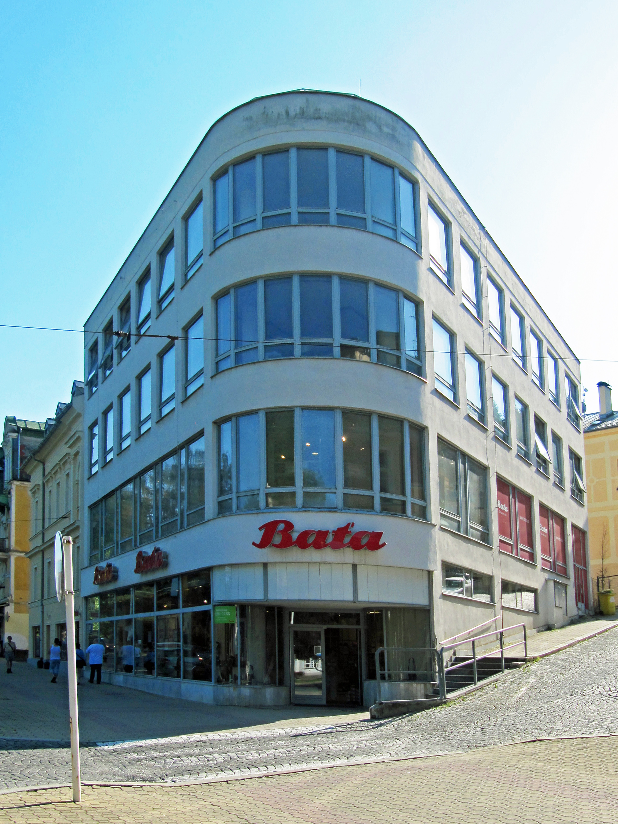 Mariánské Lázně, Cheb District, Czech Republic.